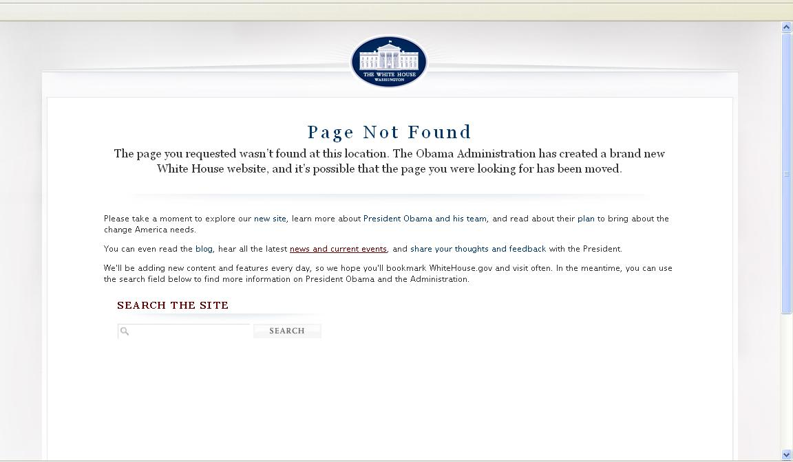 An HTTP 404 error on the website generated on January 20, 2009 when trying to access the source page of this file, which is a photo of former president George W. Bush, which was downloaded on previous day on January 19, 2009. This is an example of the content from a prior presidential administration becoming inaccessible on the website when a president leaves office. Screenshot taken with Mozilla Firefox.